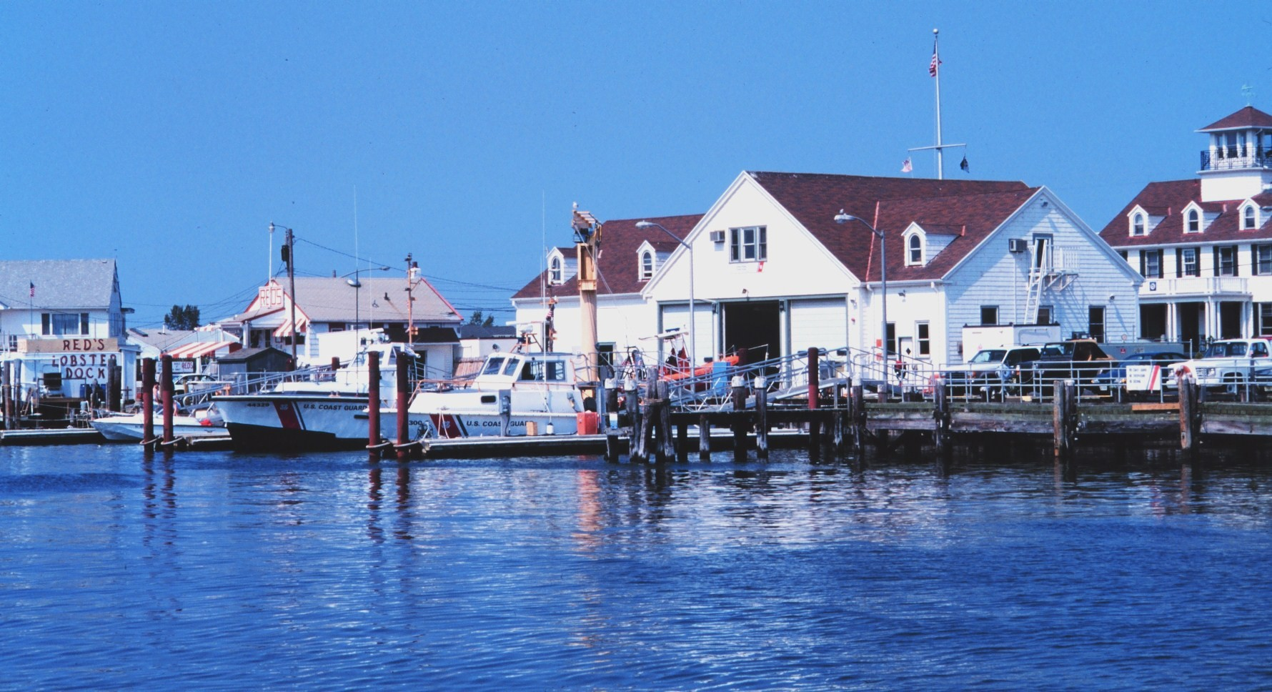 The U. S. Coast Guard Station. Pt. Pleasant, New Jersey.